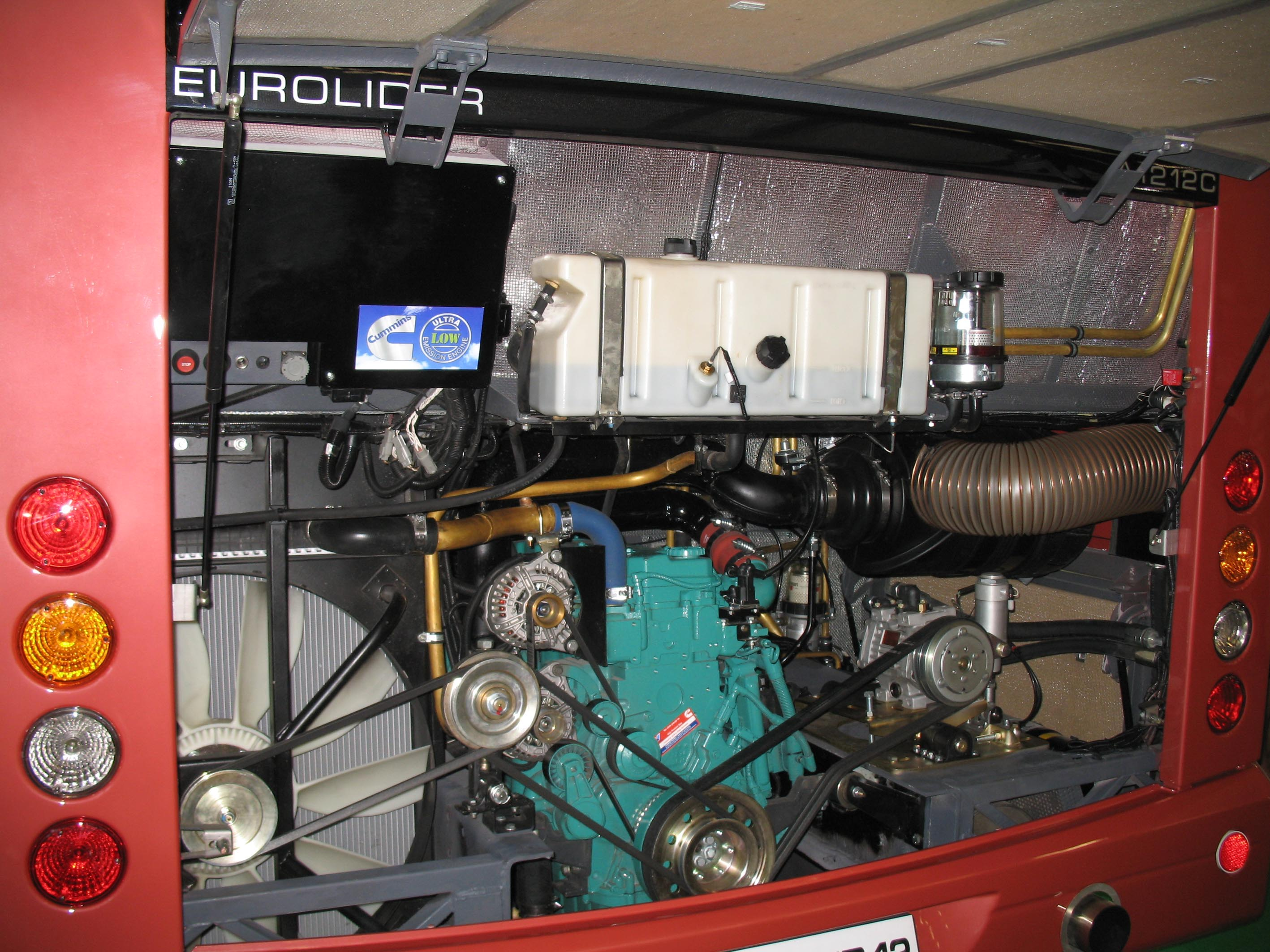 Autosan A1212C Eurolider Cummins ISB6.7E5 300 Euro 5 engine in Kielce, Poland. Built 2009. Transexpo 2009. From 2010 - Veolia Transport Podkarpacie in Sędziszów Małopolski operator.